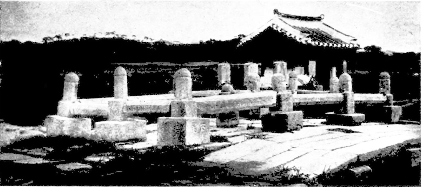 The "Blood Bridge" at Songdo